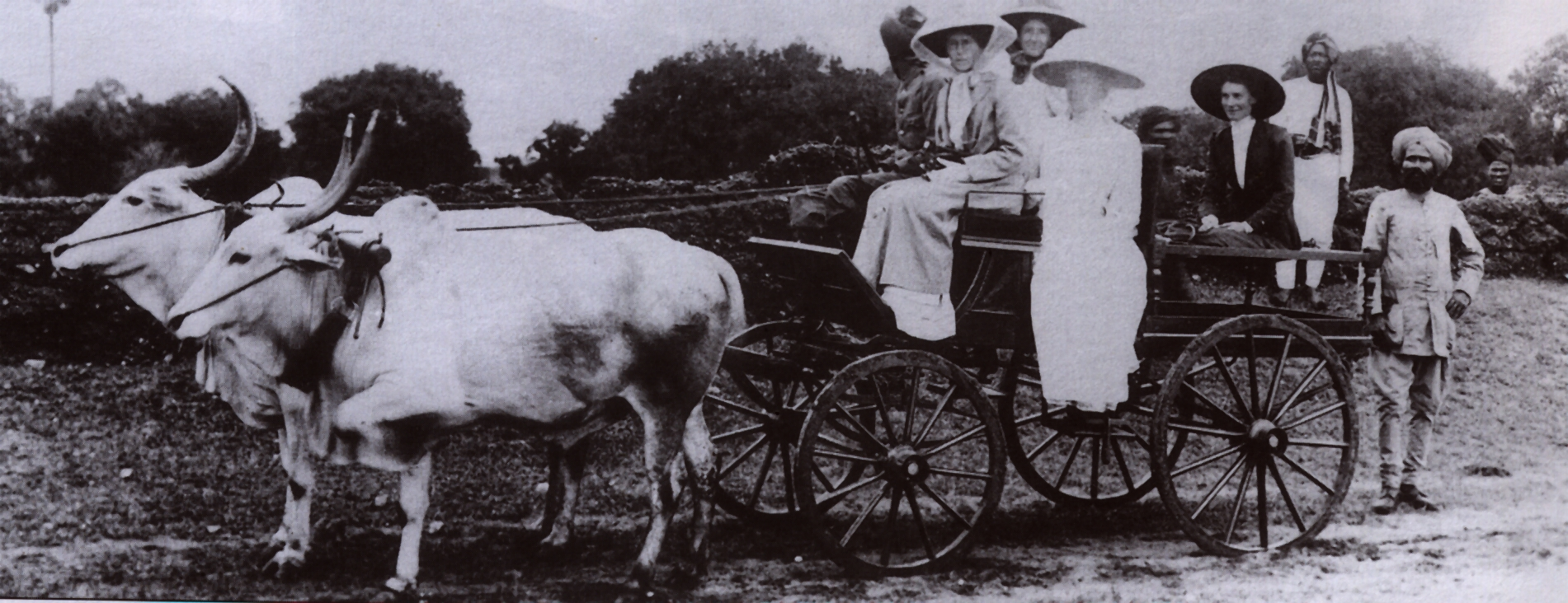 Family members of the Viceroy of India Lord Hardinge. Riding an ox cart nera Mahubabad on occasion of their visit to the Indian princely state of Hyderabad in September 1911 when Asaf Jah VII was crowned.